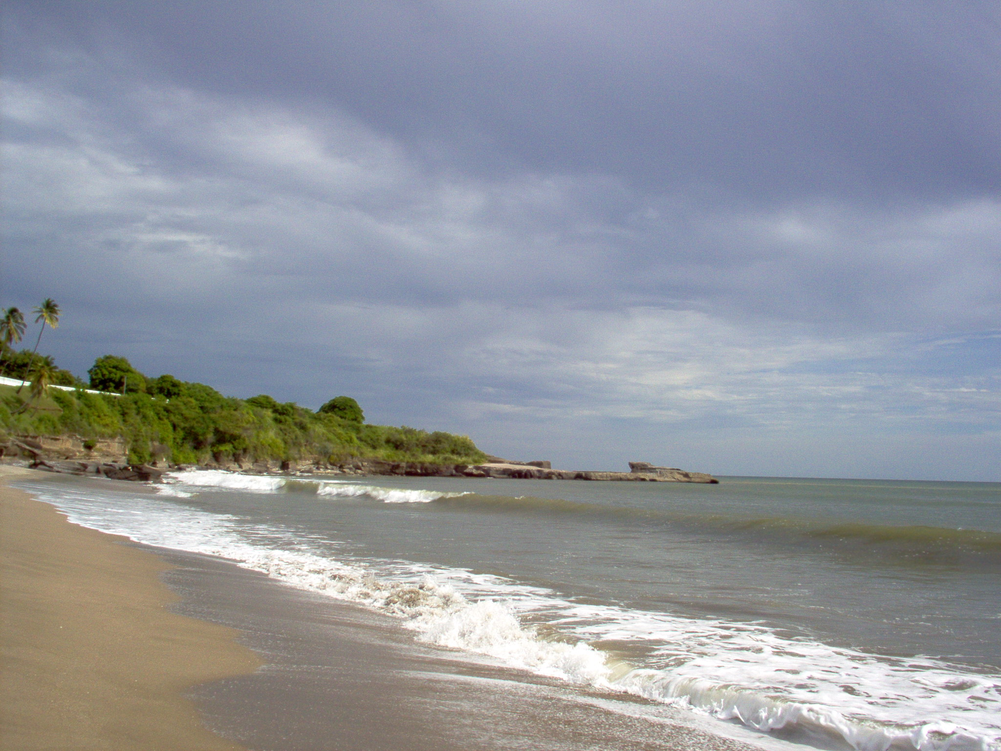 Montelimar Beach, in Managua, Nicaragua